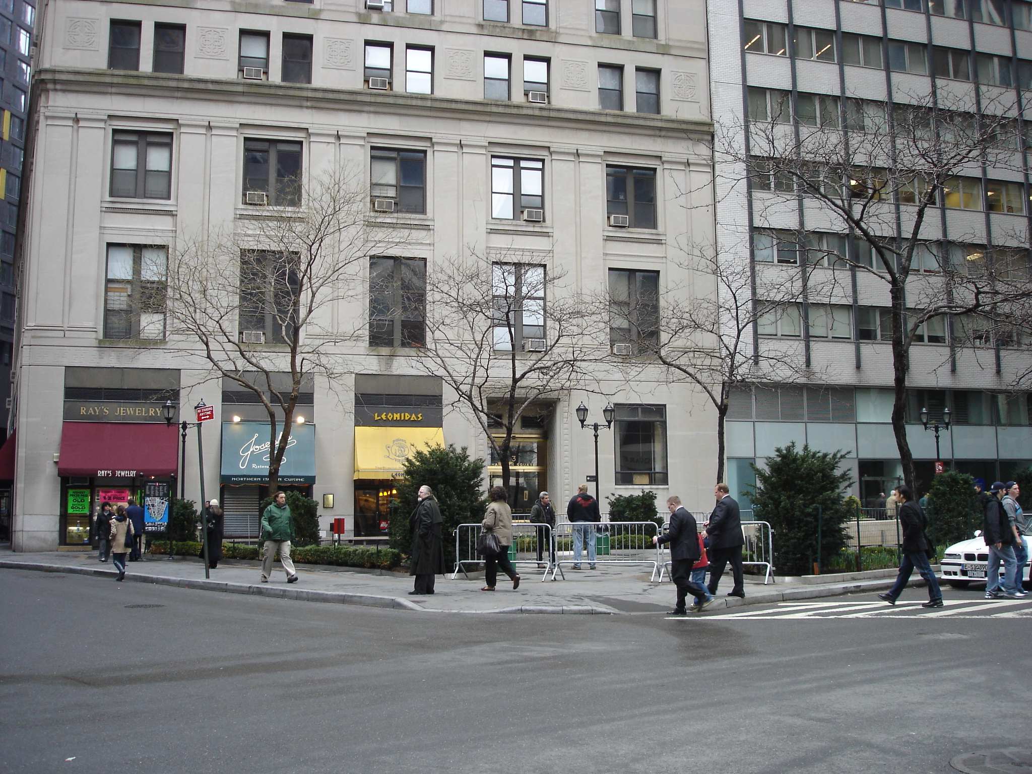 This photo is of Wikipedia Takes Manhattan location code 160, Hanover Square, Manhattan.